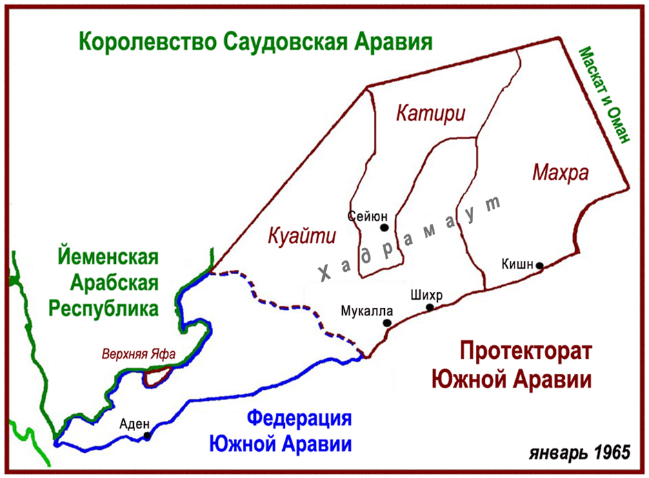 Political map of South Arabia in january 1965.